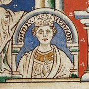 Henry the Younger, King of England. (British Library, MS Royal 14 C VII f.9)